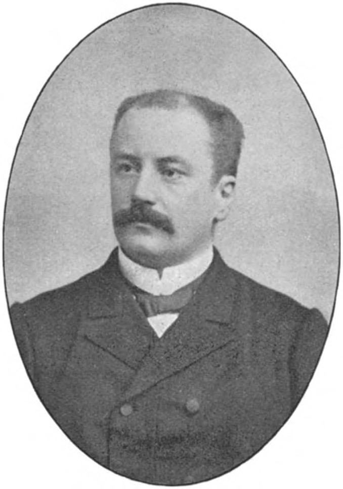 nameMr. W. VAN DER VLUGT political affiliationliberalism positionmember of the House of Representatives of the Netherlands districtLeiden